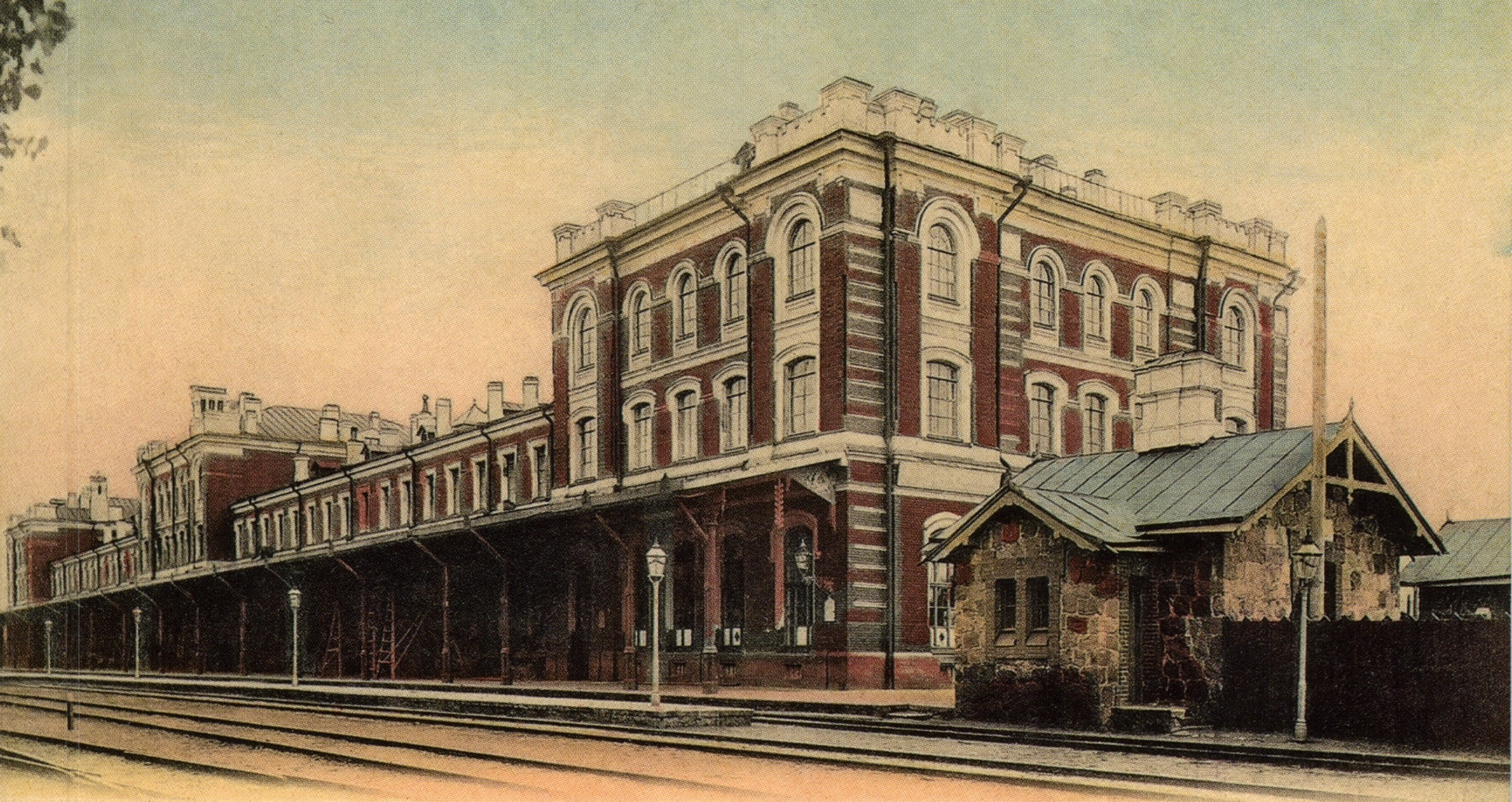 Daugavpils (before 1893 – Dinaburg, before 1920 – Dvinsk) St. Petersburg–Warsaw Railway Station.